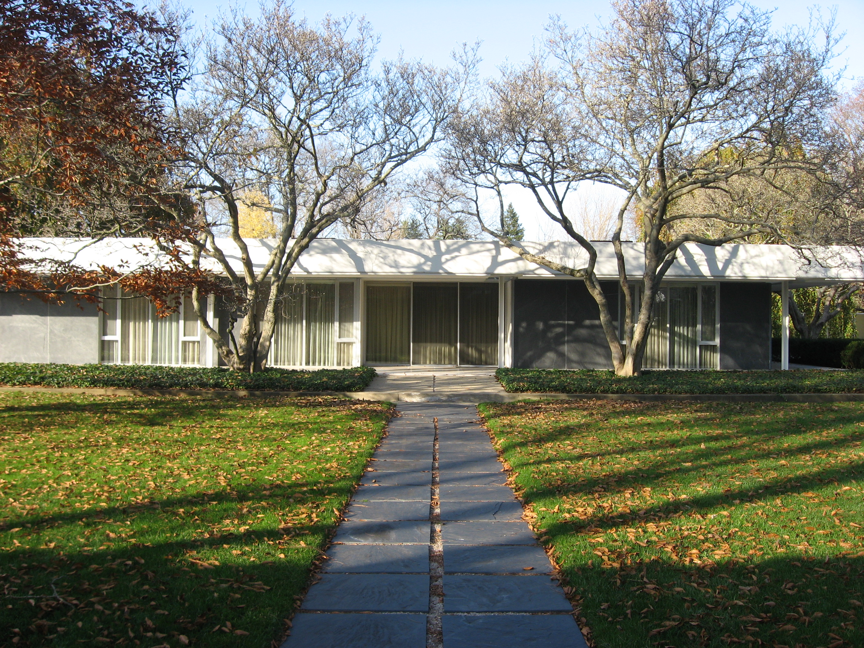 Southern entrance to the Miller House, located at 2760 Highland Way in Columbus, Indiana, United States. Designed by Eero Saarinen and built in 1957, it was the home of J. Irwin Miller. It has been declared a National Historic Landmark for its significance as a leading example of modern architecture.